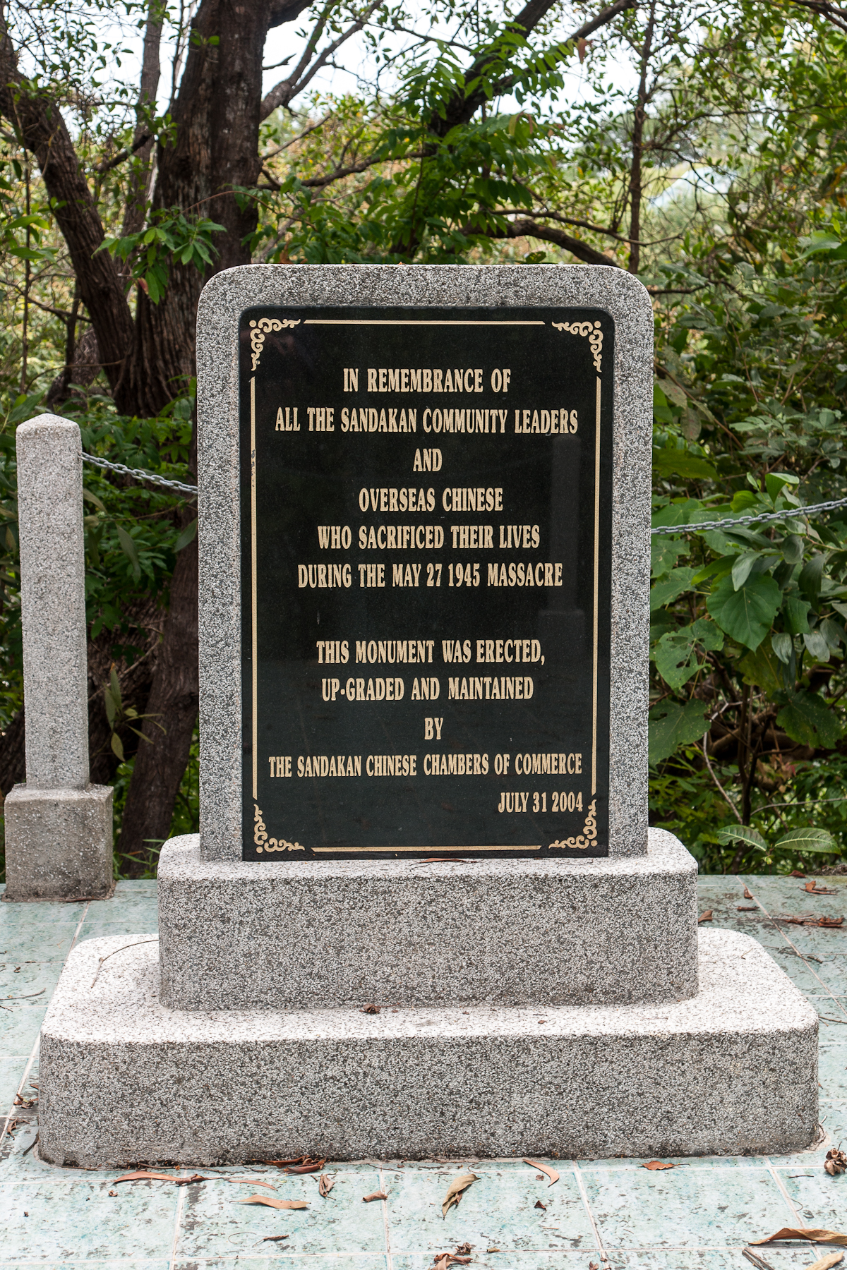 Sandakan, Sabah: Chinese Memorial for the Massacre of may 27, 1945; right part